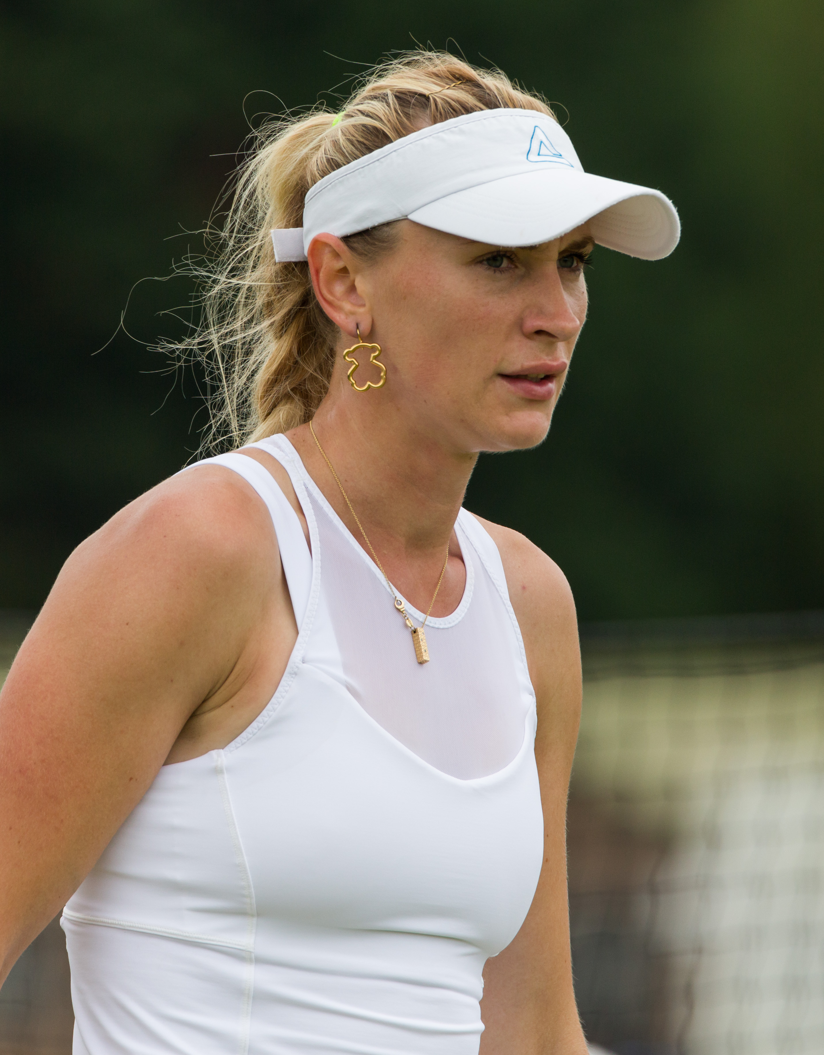 Olga Govortsova competing in the first round of the 2015 Wimbledon Qualifying Tournament at the Bank of England Sports Grounds in Roehampton, England. The winners of three rounds of competition qualify for the main draw of Wimbledon the following week.